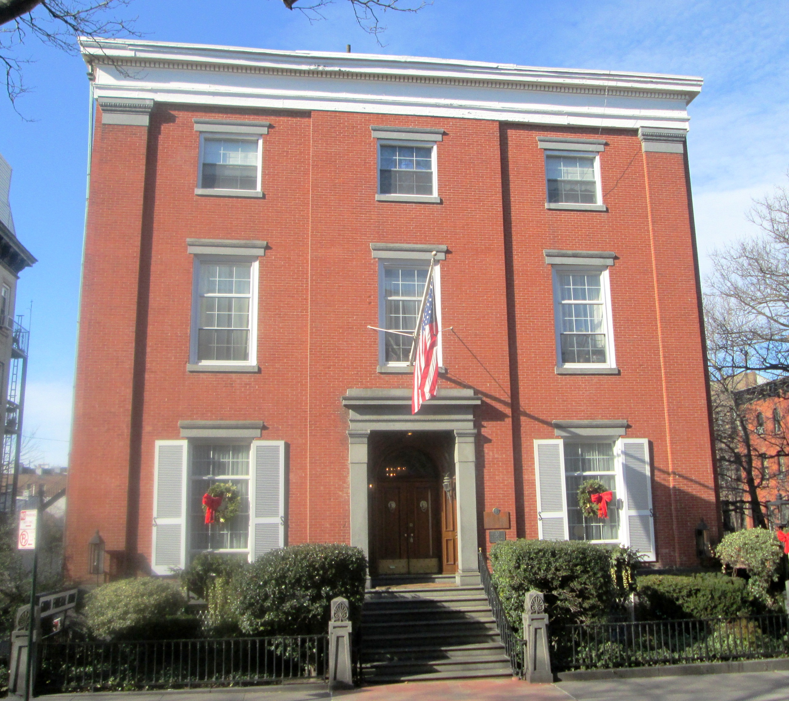 The John Rankin House at 440 Clinton Street at the corner of Carroll Street in the Carroll Gardens neighborhood of Brooklyn, New York City was built in 1840 in the Greek Revival style, at which time it stood by itself, surrounded by farmland and overlooking Upper New York Bay. Rankin was a merchant, and the mansion, one of the finest Greek Revival houses in the city, was one of the largest residences in Brooklyn in the 1840s. It was designated a New York City landmark in 1970, and was added to the National Register of Historic Places in 1978. Currently it is the F. G. Guido Funeral Home. (Sources: AIA Guide to NYC (5th ed.), Guide to NYC Landmarks (4th ed.) and "John Rankin House Designation Report")